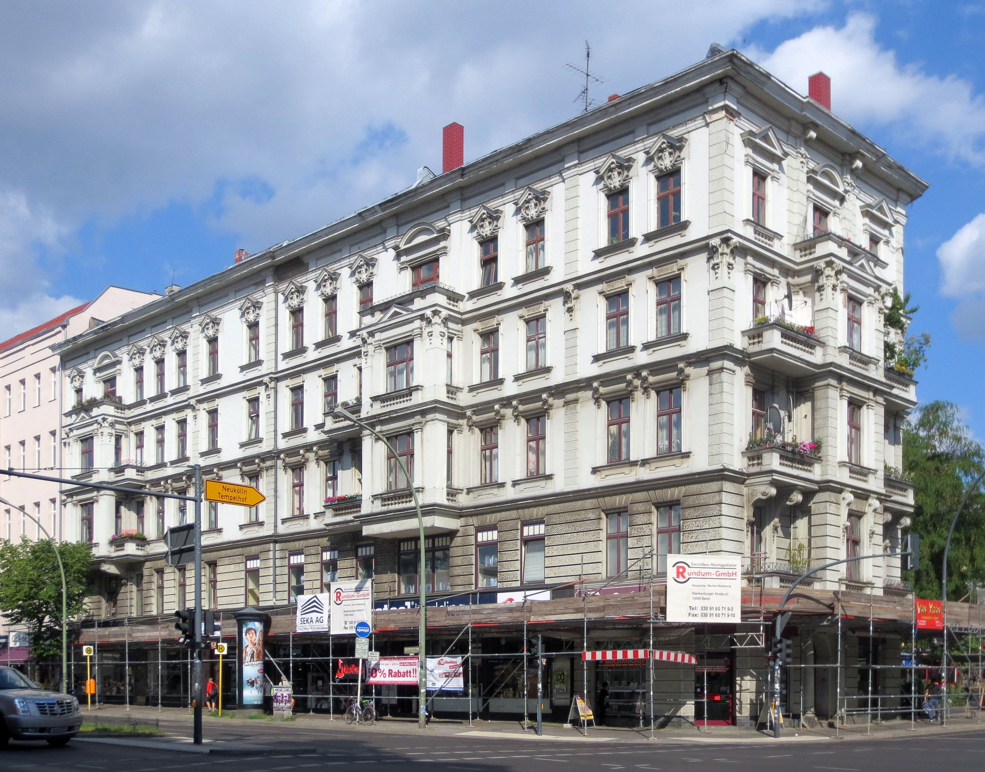 Residential building Kaiser-Wilhelm-Platz No. 5, corner of Hauptstraße No. 146 (on the left), in Berlin-Schöneberg. The house has another facade at Crellestraße No. 48; it was built in 1890/1891 by Georg Roensch. The building has been designated as a cultural heritage monument.